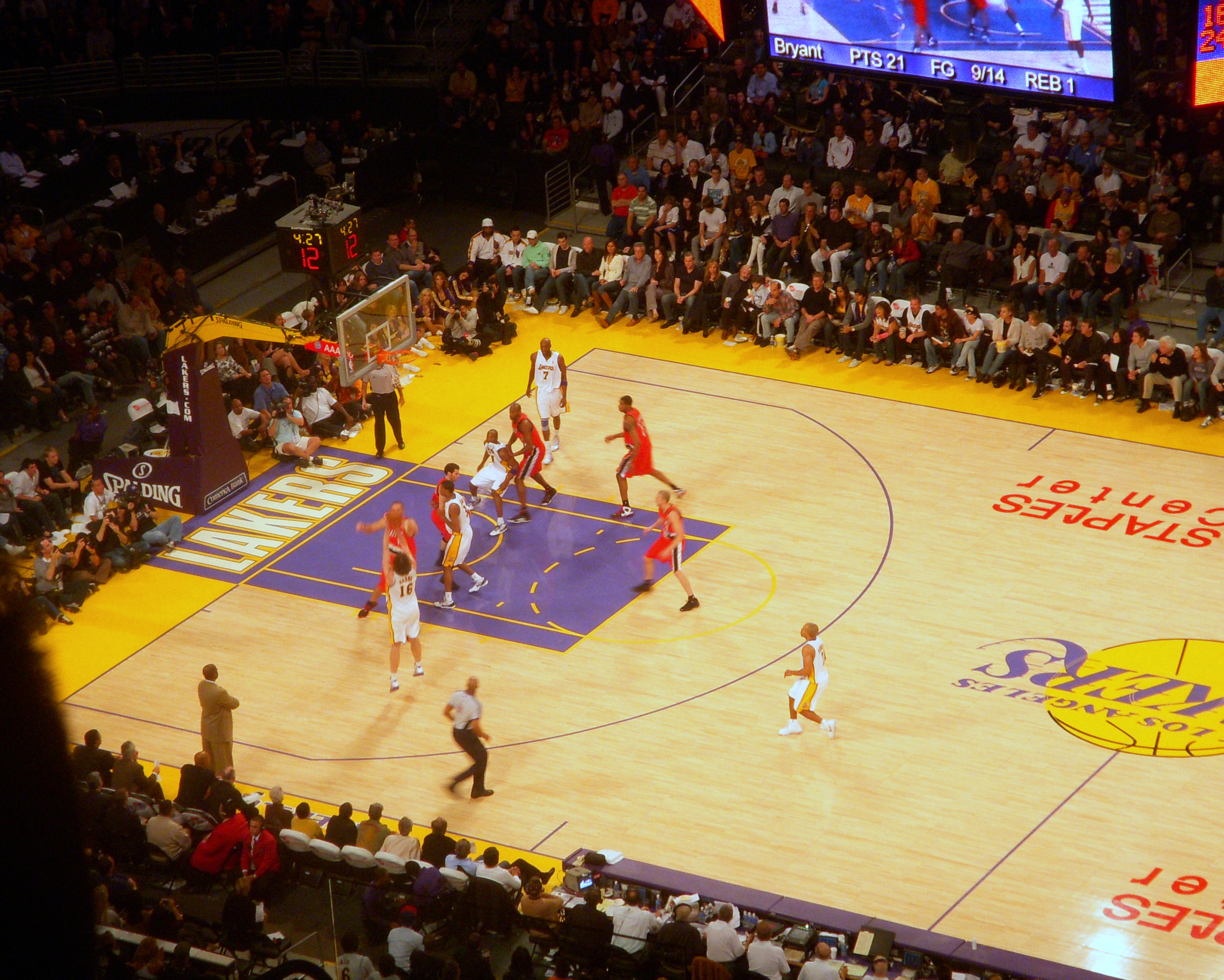 The Los Angeles Lakers playing a home game against the Portland Trail Blazers on January 4, 2009 at Staples Center.